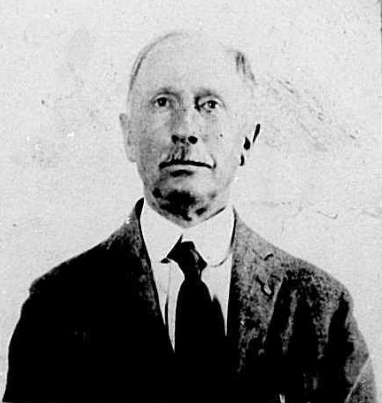 Bert Elias Underwood in 1921